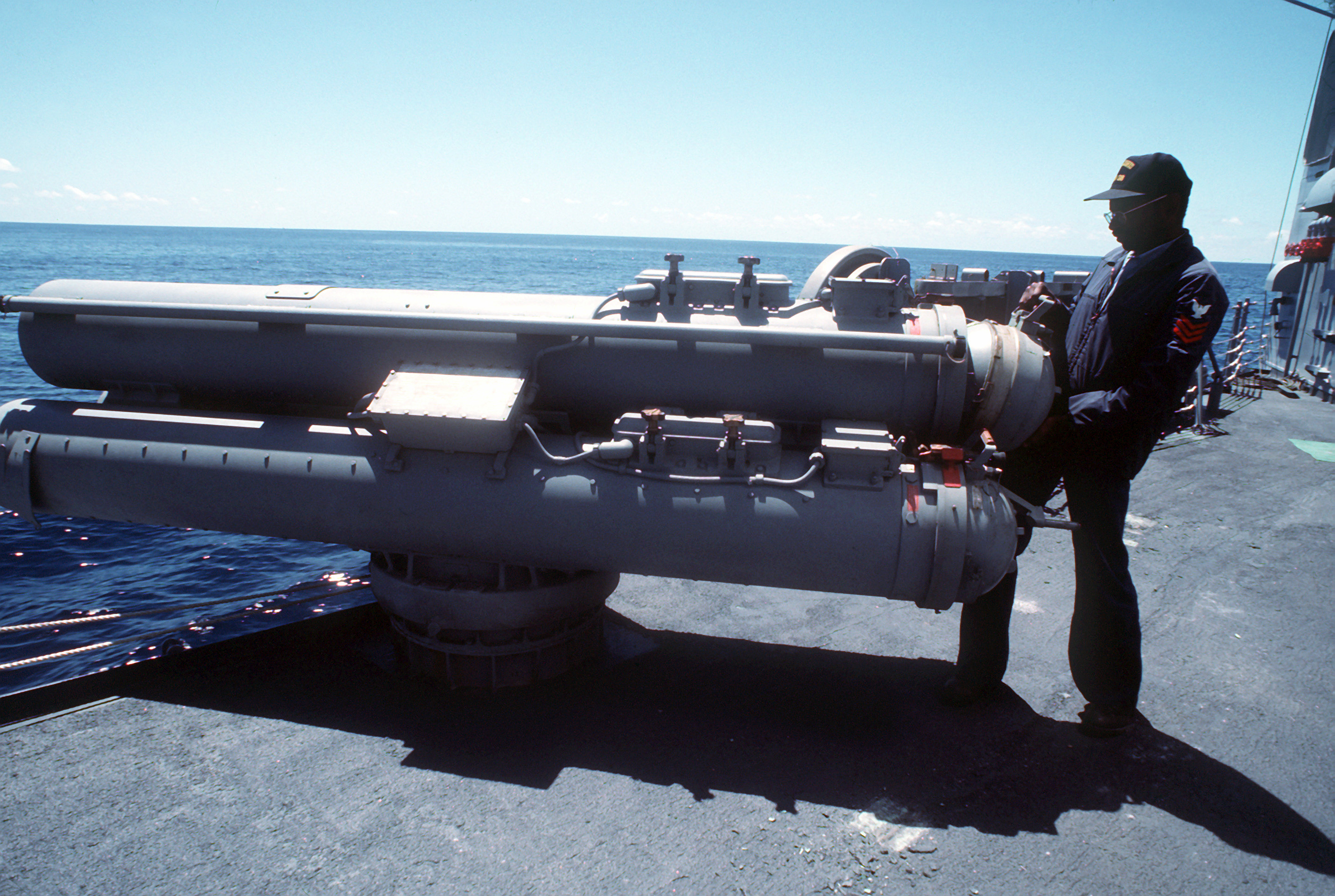 A crewman closes the breach of a Mark 32 12.75-inch torpedo launcher aboard the guided missile frigate USS CURTS (FFG-38) during anti-submarine warfare operations off the coast of Southern California.